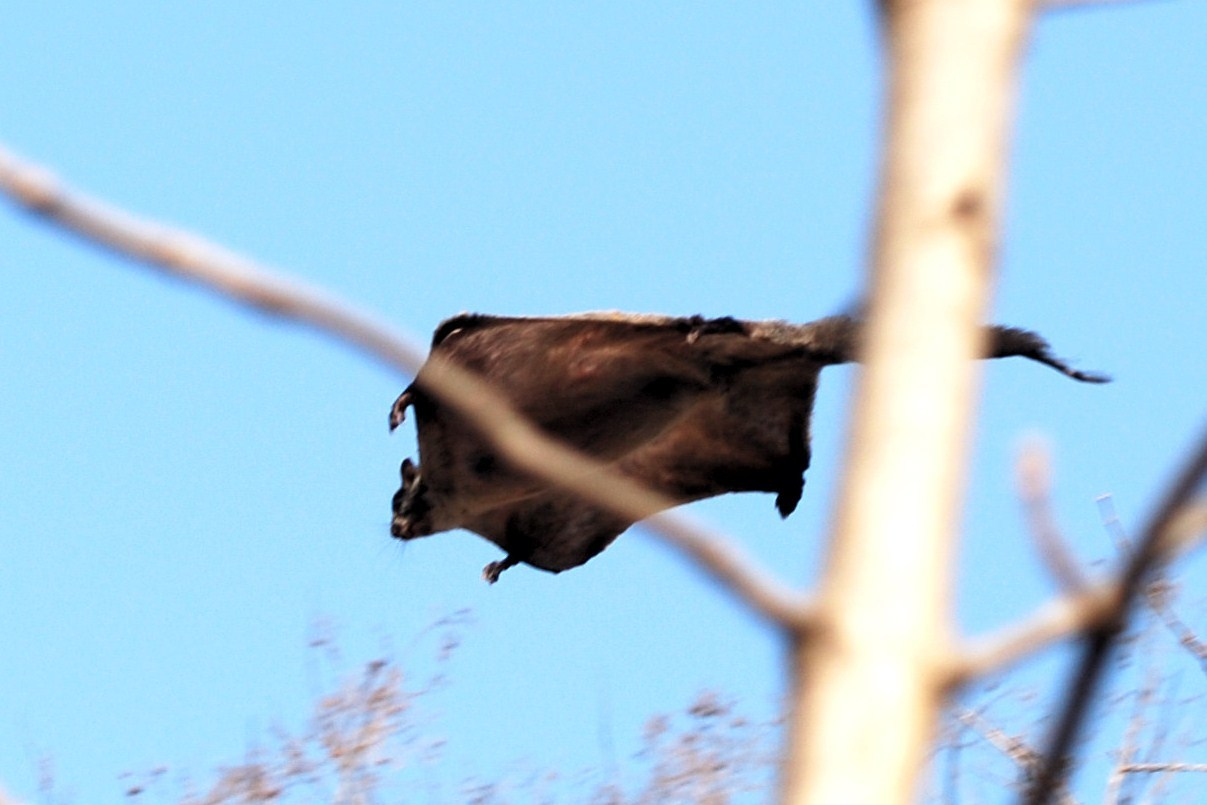 'Indian Giant Flying Squirrel, patuarista patuarista ગુજરાતી: ઉડતી ખિસકોલી, ગુજરાત માં આવેલ રતન મહાલ રીંછ અભ્યારણ તેમજ તેની આસપાસ ના વિસ્તાર માં જોવા મળતી આ ઉડતી ખિસકોલી નિશાચર તેમજ ખુબજ શરમાળ પ્રકૃતિ ની છે. જળ થડ વાળા ઝાડ જેમકે મહુડો, ઉંબરો વગેતે માં ઊંચાઈ પર બખોલ બનાવી ને રહેતું આ સરકારી જંગલ ખાતા મુજબ પ્રાણી નાશ થવાના આરે છે.